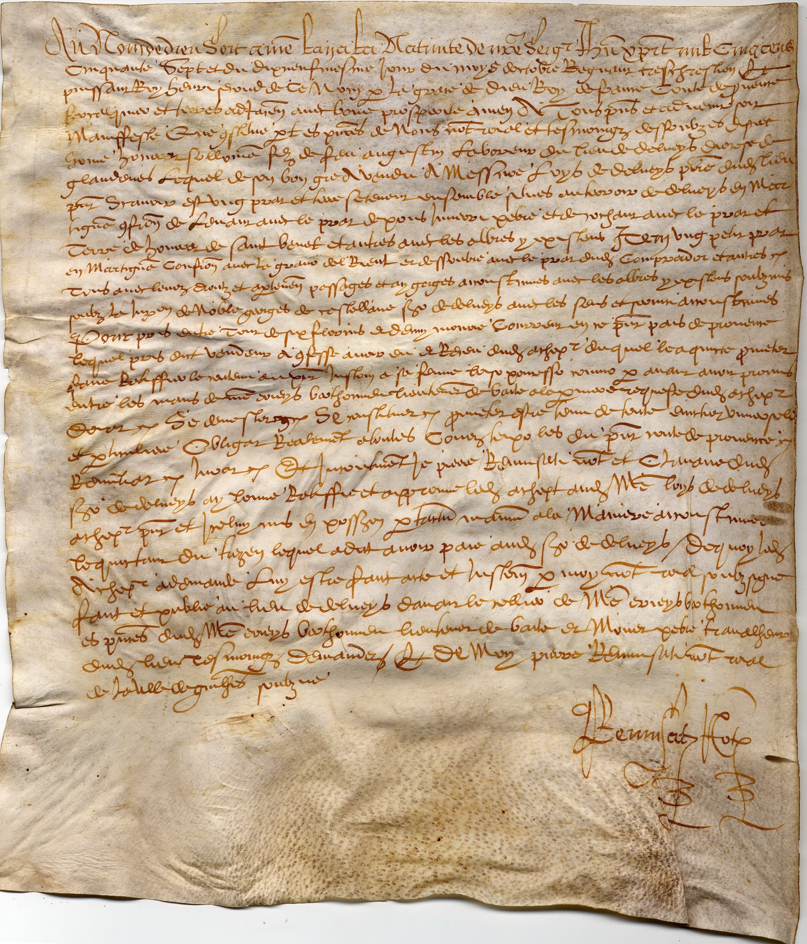 Daluis (06-France) notarial act from 1557 : cow baught for Louis de Daluis, priest (de Barrême family)